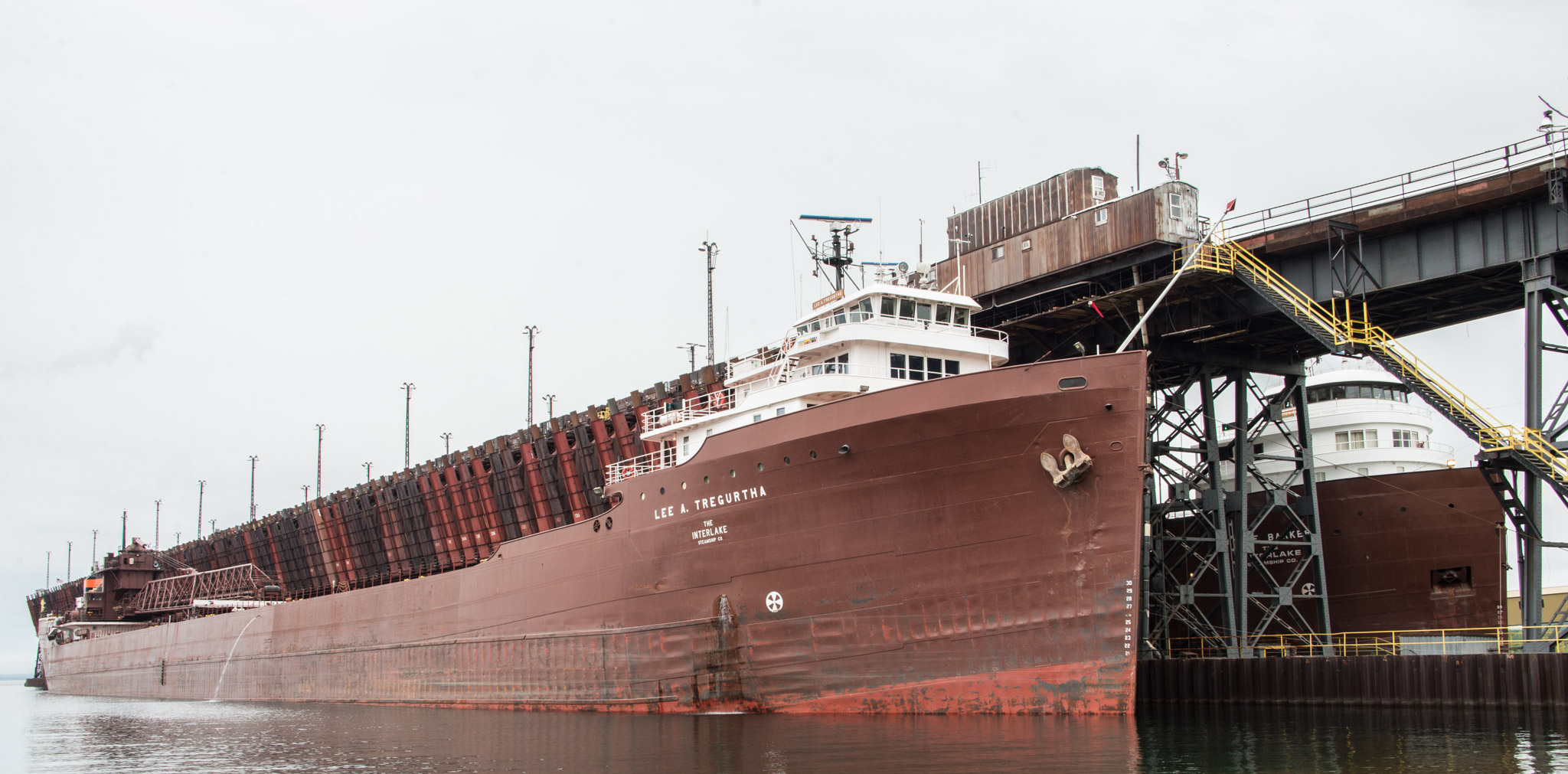 The M/V Lee A. Tregurtha and the M/V Kaye E. Barker at the Presque Isle Iron Ore Dock in Marquette, Michigan.